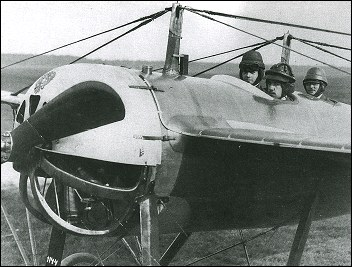 Photo of Sikorsky S-9 aircraft circa 1913 close up